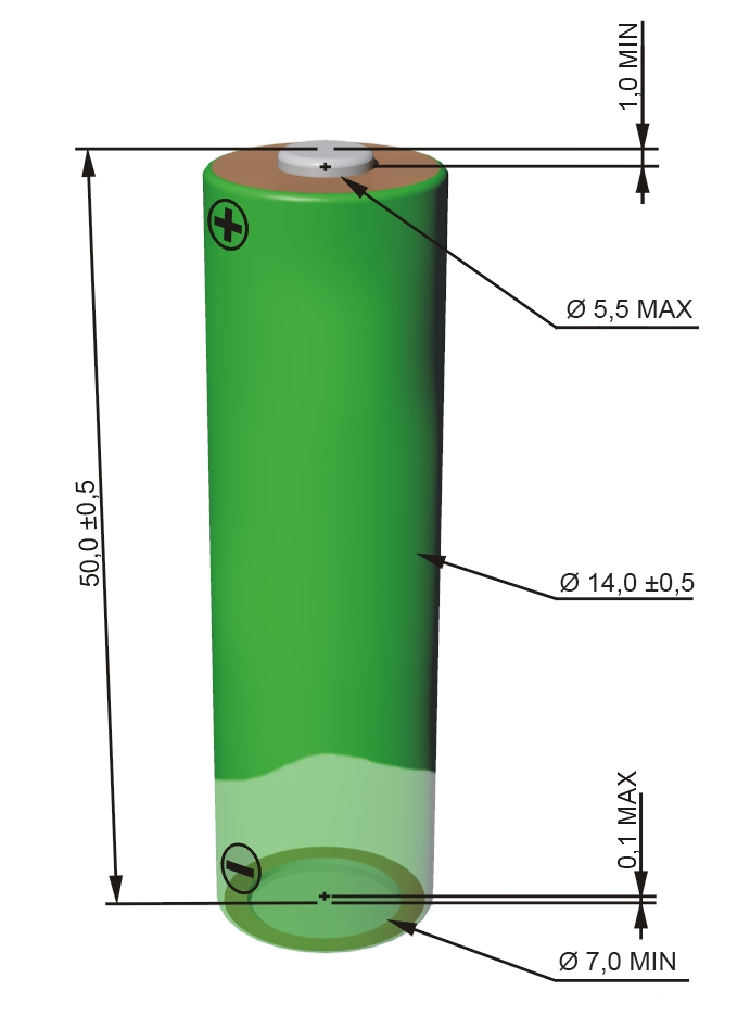 Typical dimensions of AA battery.